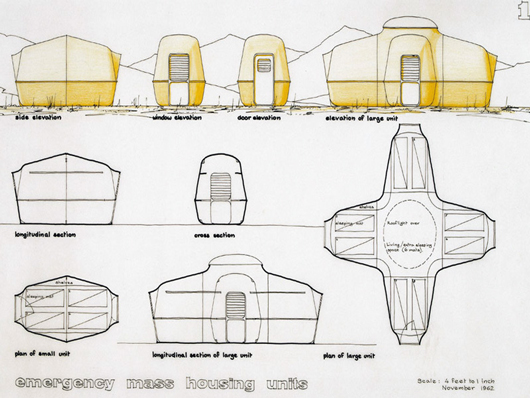 EMERGENCY MASS HOUSING UNITS, 1962